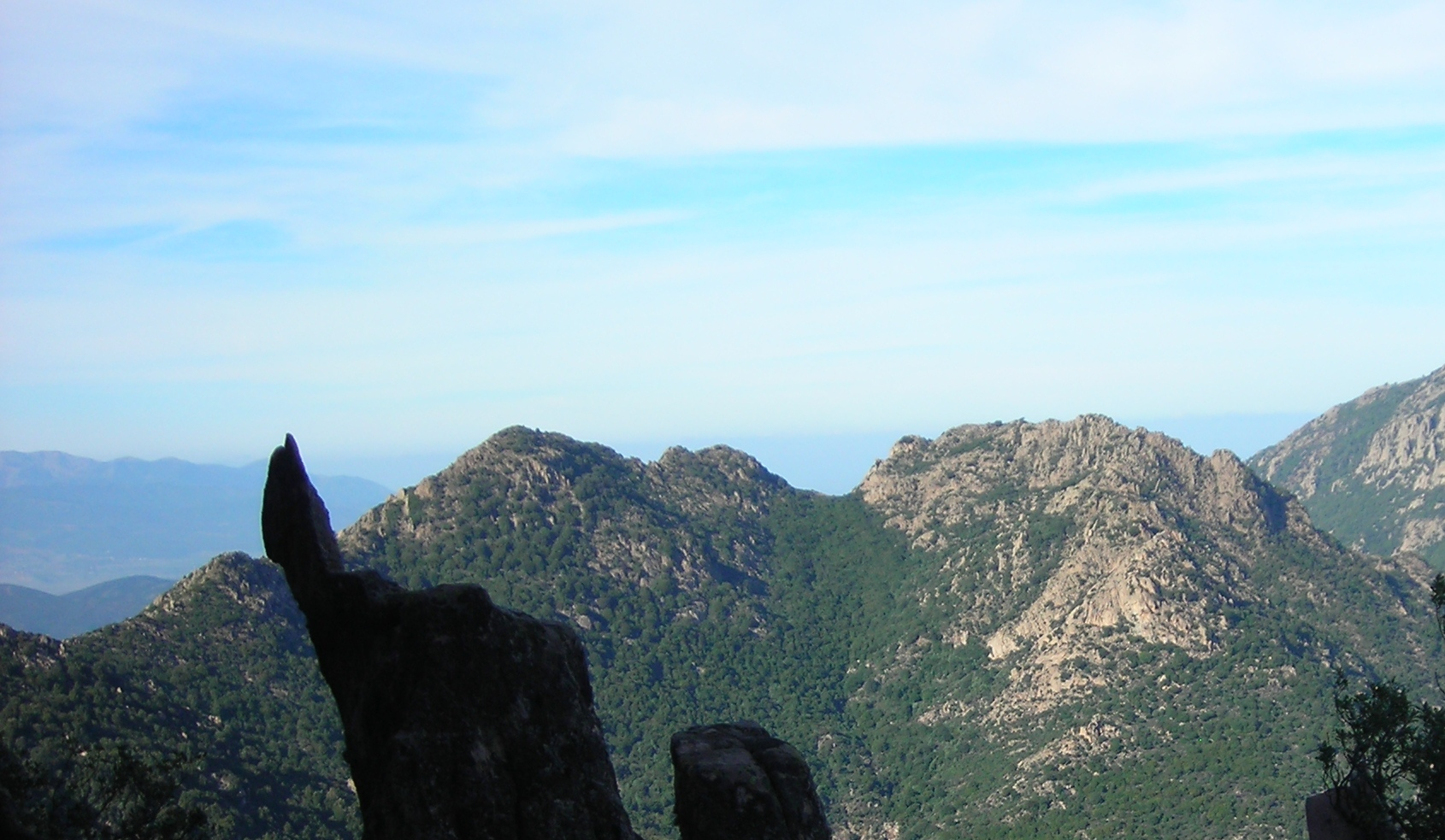 Mount Genna Strinta (Sardinia, Italy). View from M. Lattias. In the background at the right the mount Arcosu